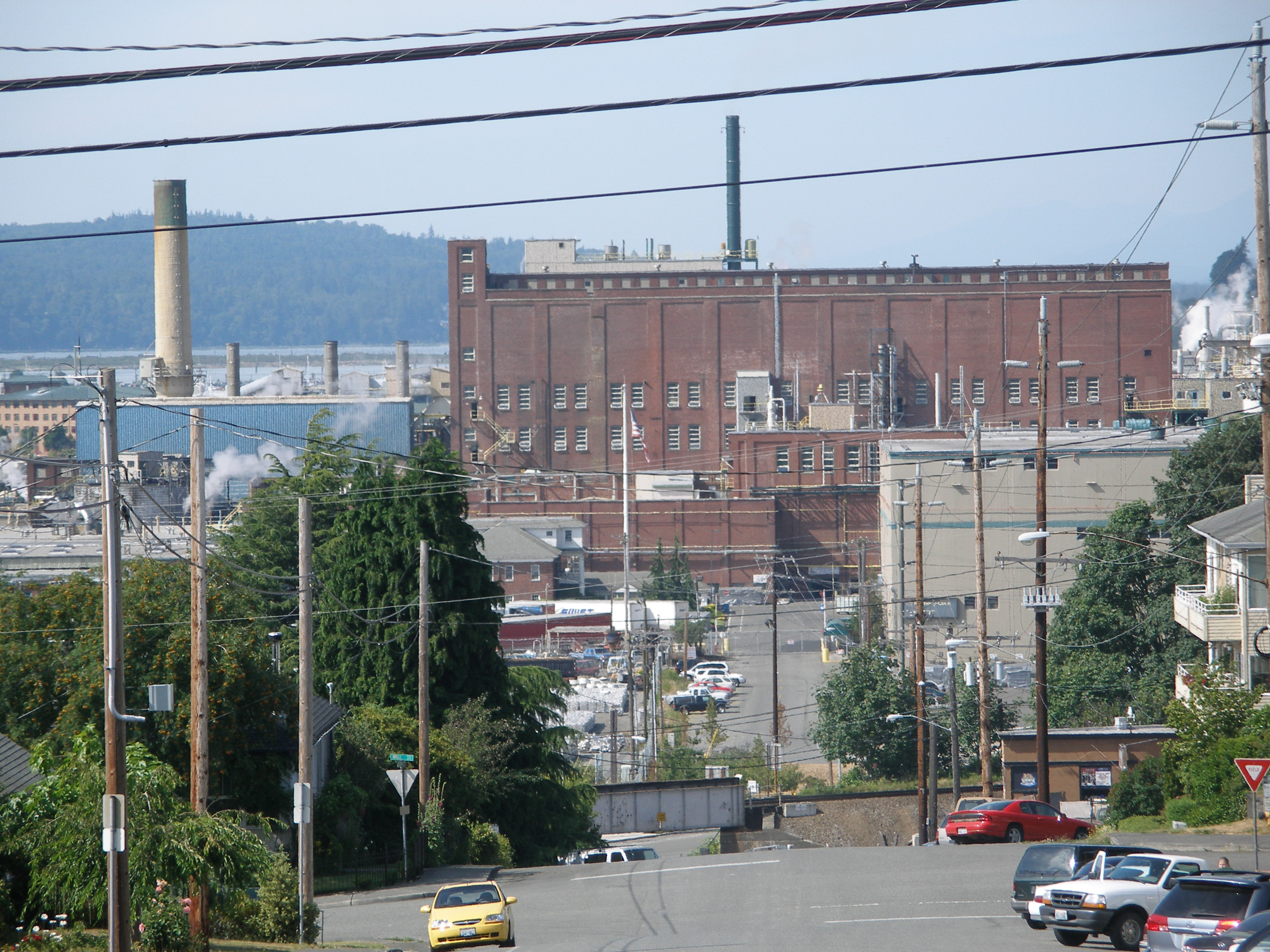 The Kimberly-Clark paper plant on the Everett, Washington, waterfront. Closed early 2012.